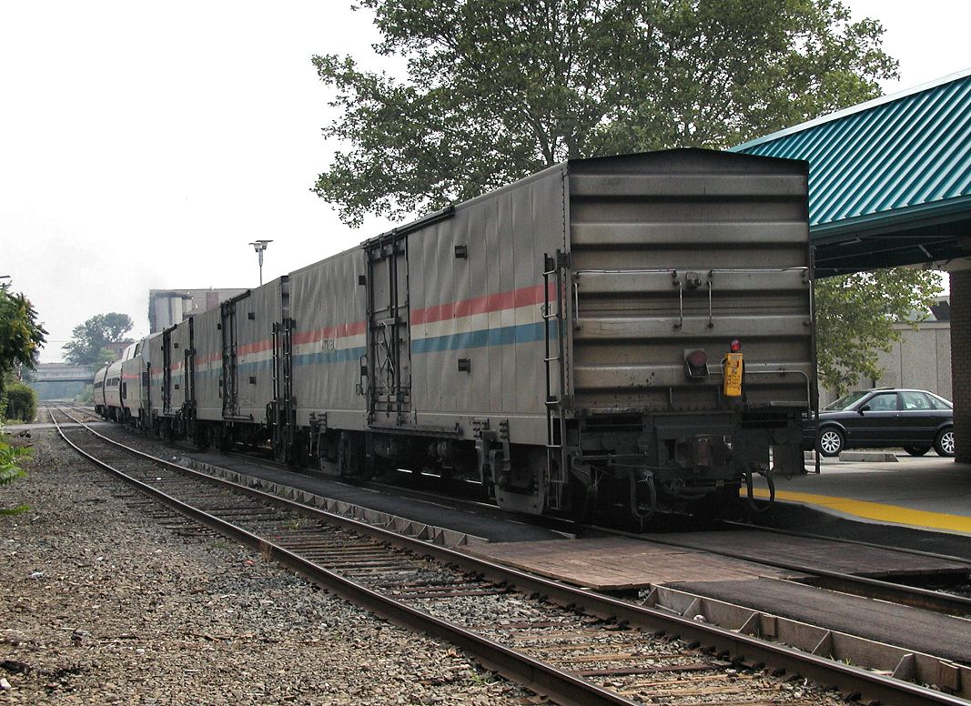 Amtrak Material handling cars on Springfield Shuttle Train 490 at Meriden bound for the postal sorting facility in Springfield, MA in 2002.